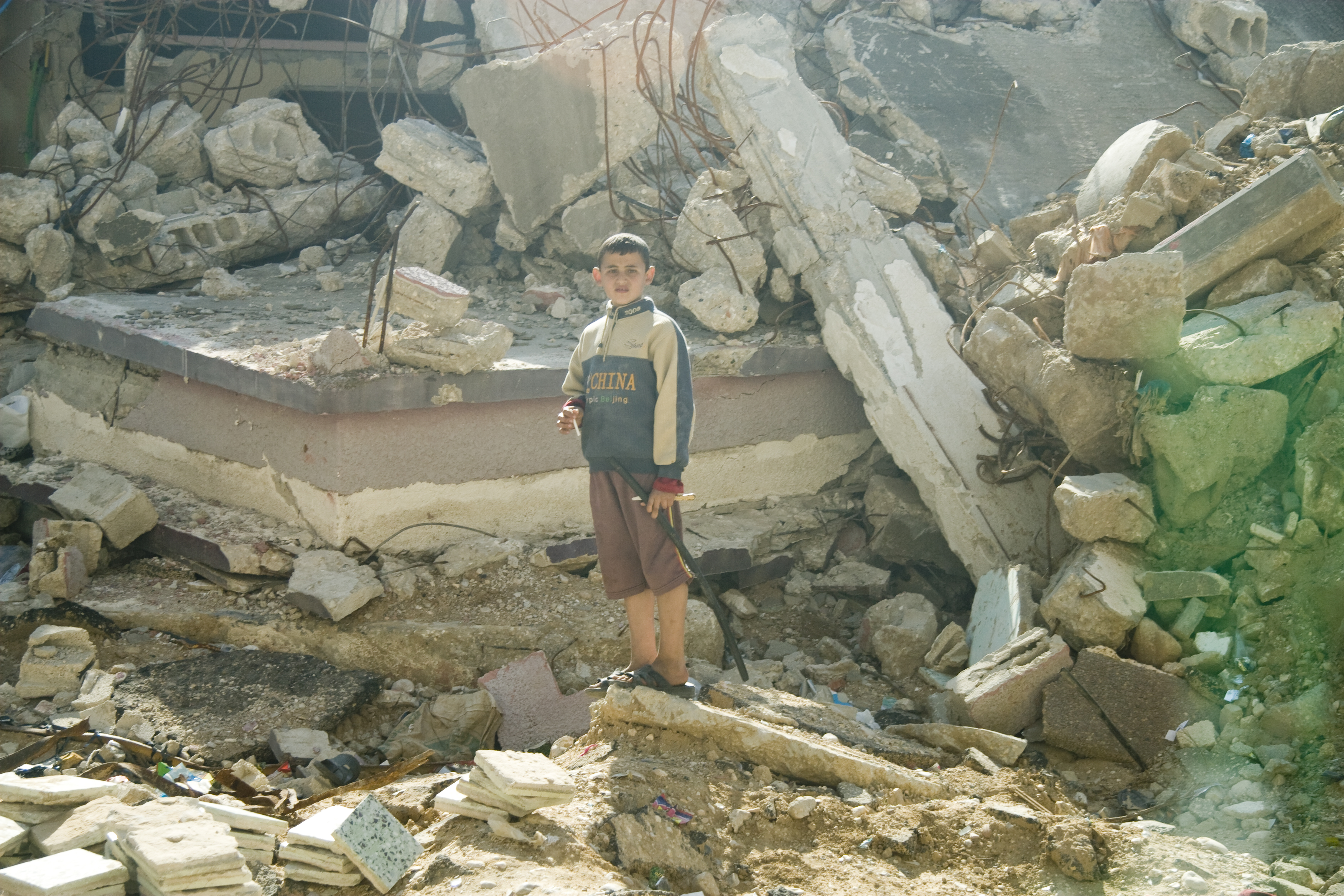 One of the more difficult things for me to understand was that people are still just living in the rubble - where else can they go?